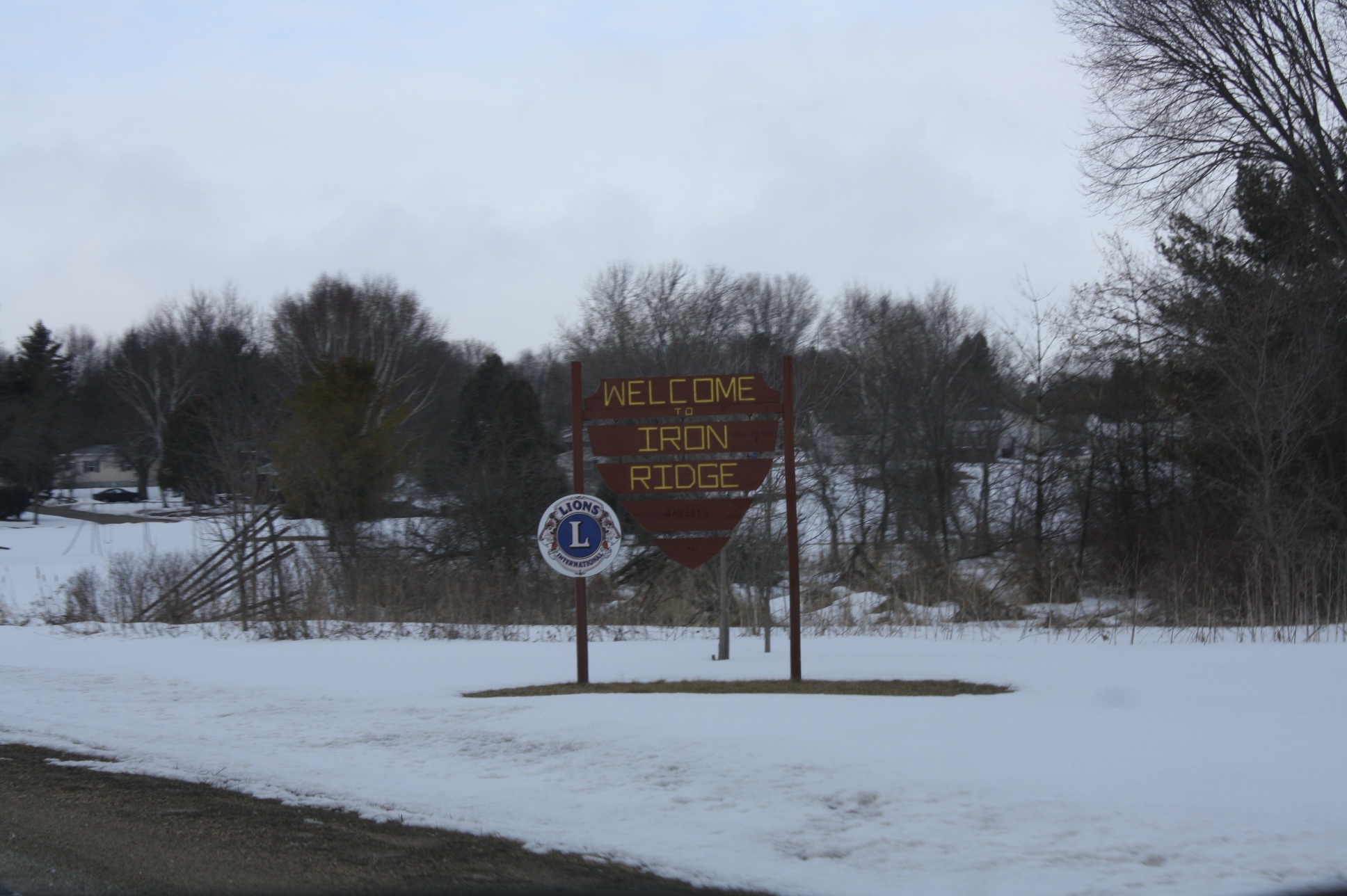 The city welcome sign for the unincorporated community of Iron Ridge, Wisconsin).